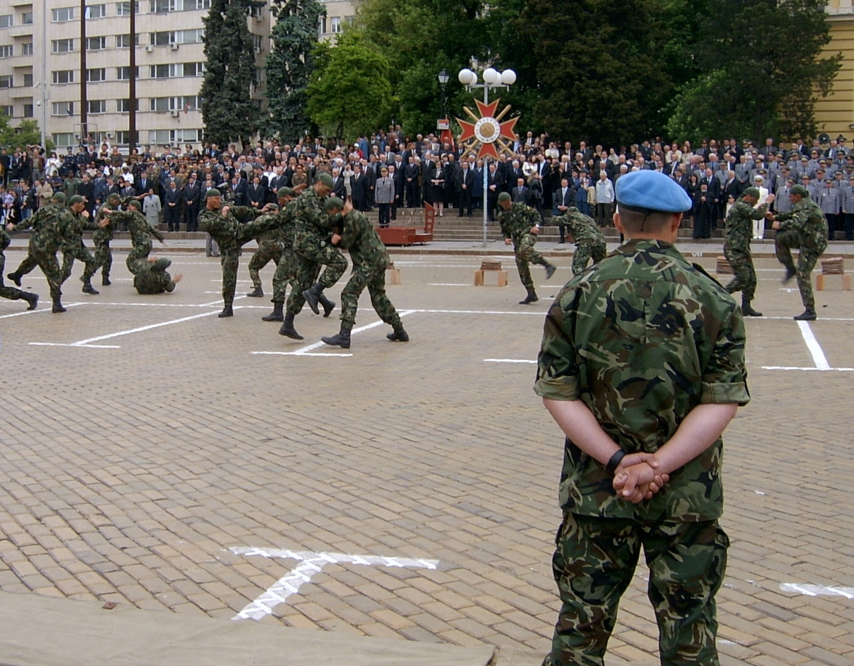 Bulgarian Special Forces Hand-to=hand demonstration during the National Armed Forces Day - 06 May (2007)